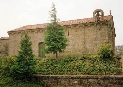 Romanic Chapel in Covilhã